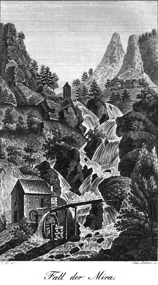 Fall der Mira, a pre 1831 engraving of the then undeveloped Myrafälle, a series of waterfalls in Lower Austria.